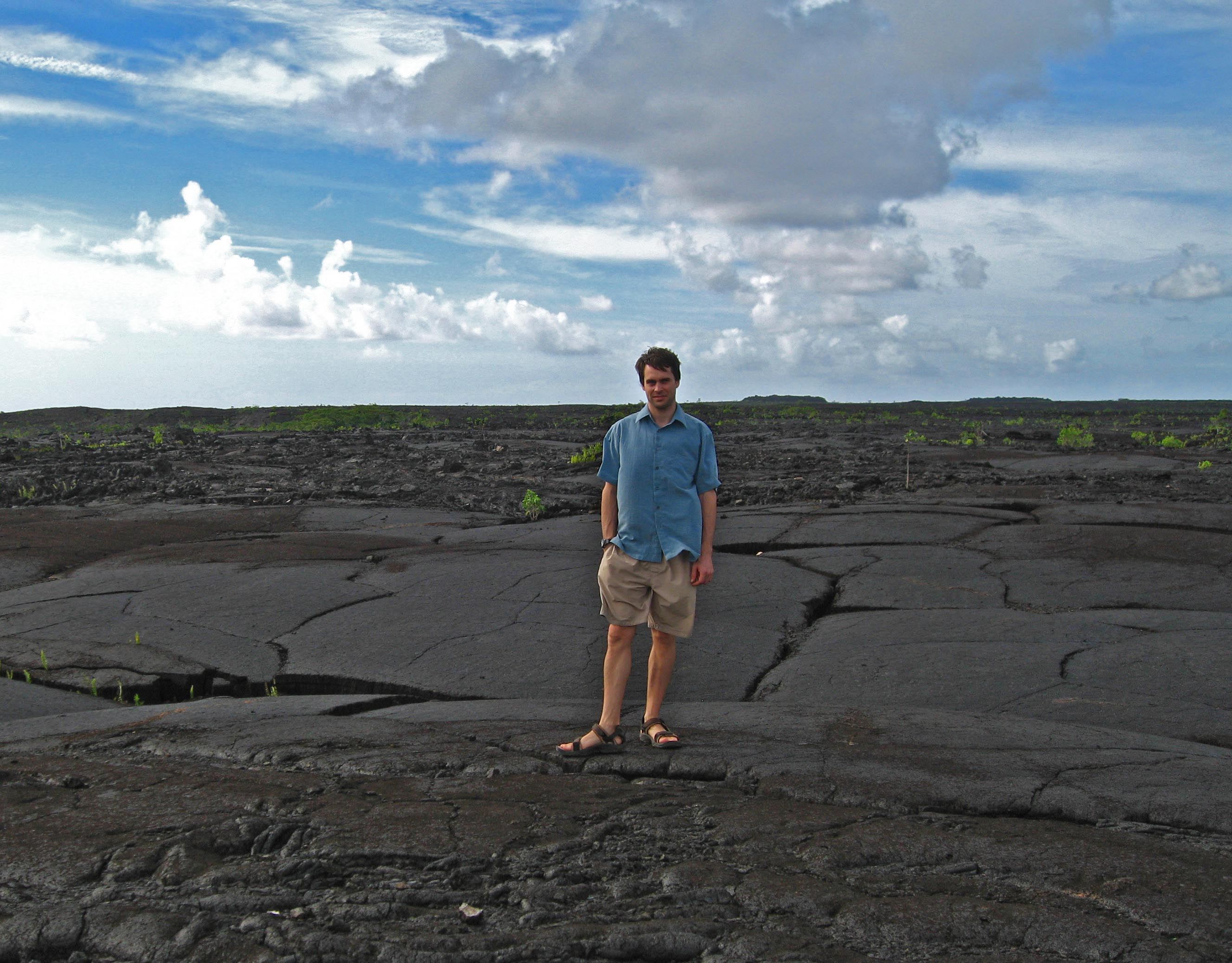 Lava Fields - Savai'i island in Samoa. Gagana Samoa: Lava mai mauga mu i Savai'i.